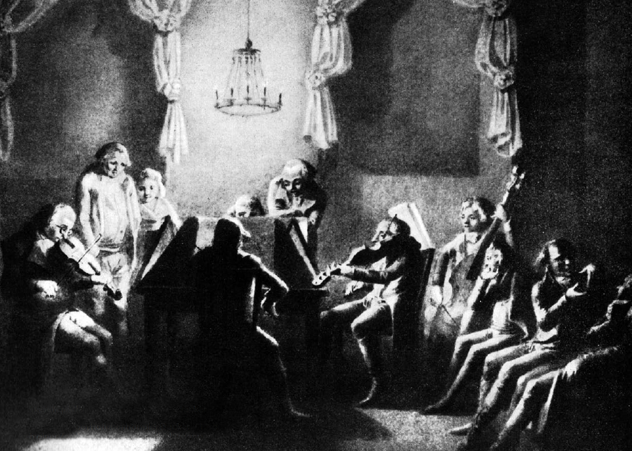 String quintet at the bookseller Decker by Anton Wachsmann, a Prussian artist and engraver.